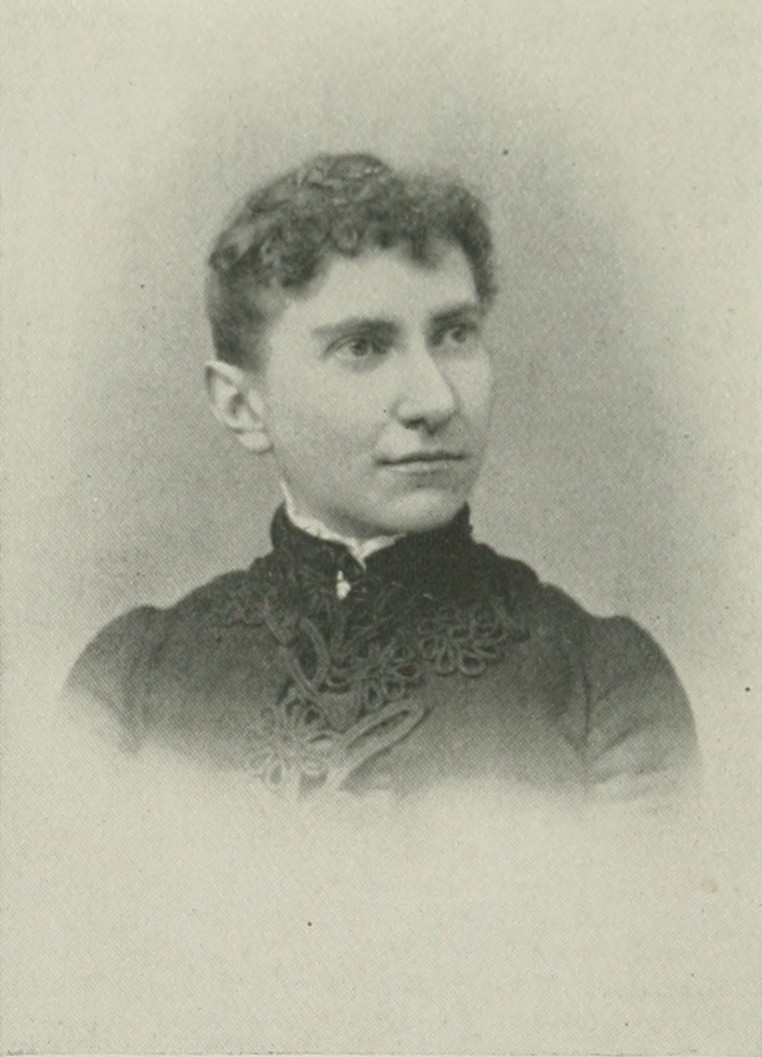 one of the Women of the Century